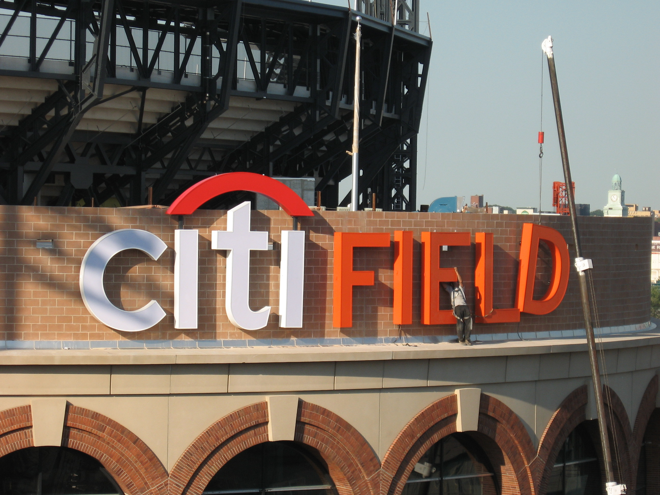 Installing the Citi Field sign from the Upper Deck at Shea.